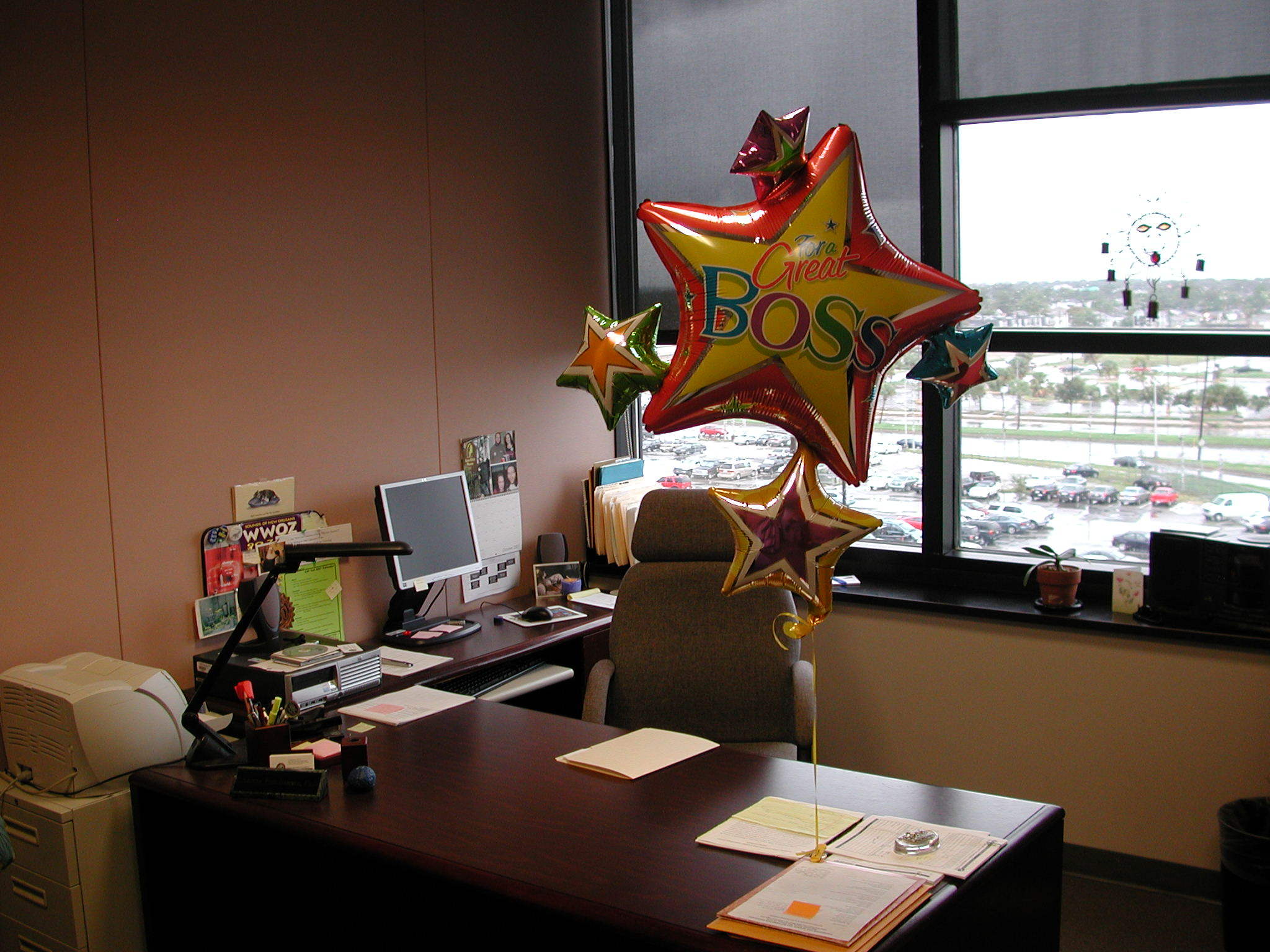 Olivia got our boss a big balloon for Boss' Day. This was a good reminder that we'd best not forget Administrative Assistants' Day like we did last year...